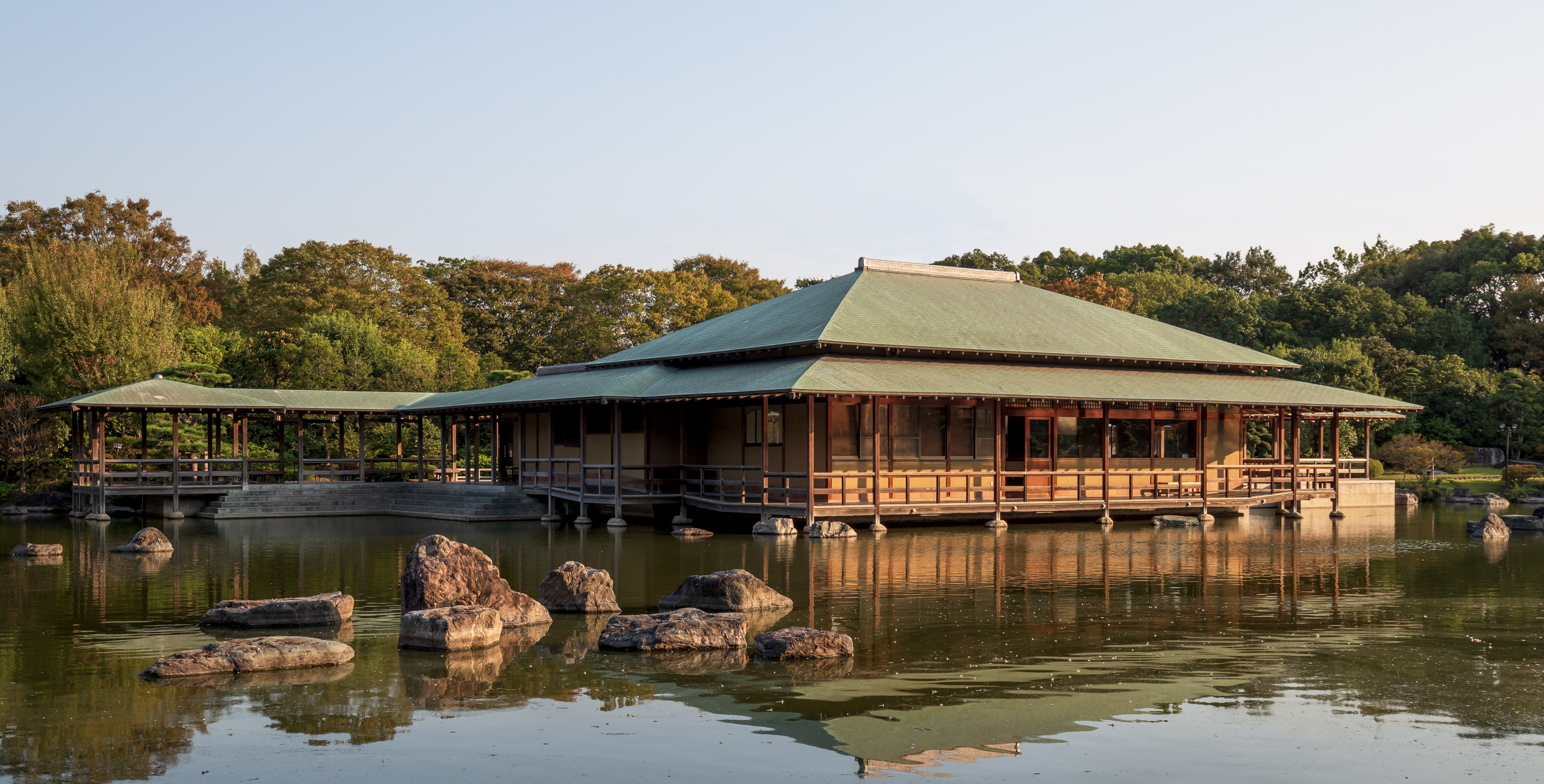 Japanese garden at Daisen Park in Sakai.